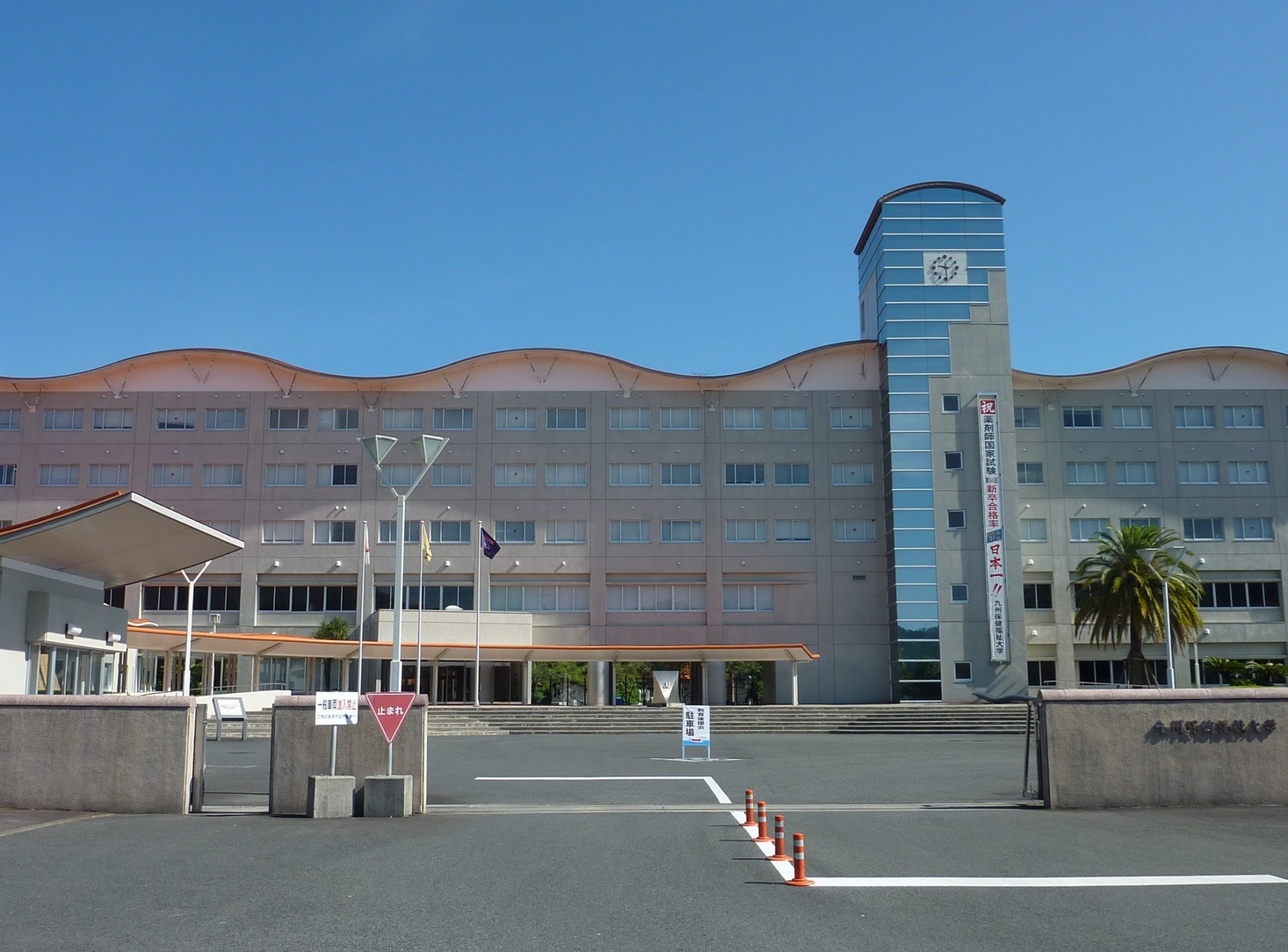 Kyushu University of Health and Welfare Entrance (Miyazaki, Japan)